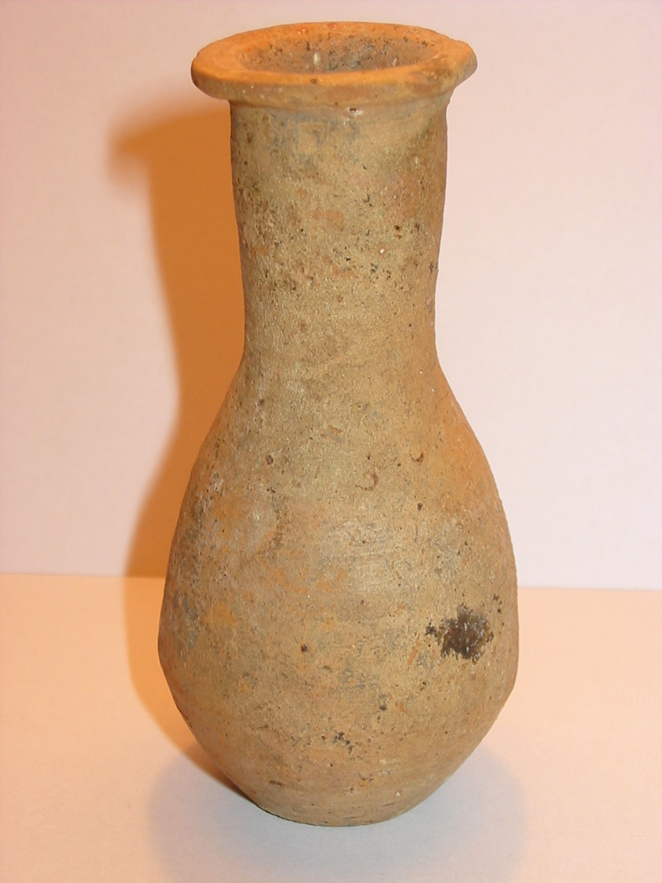 Roman bulbous unguentarium of terracotta, common in the 1st cent. AD ; ht. 8 cm (private collection)